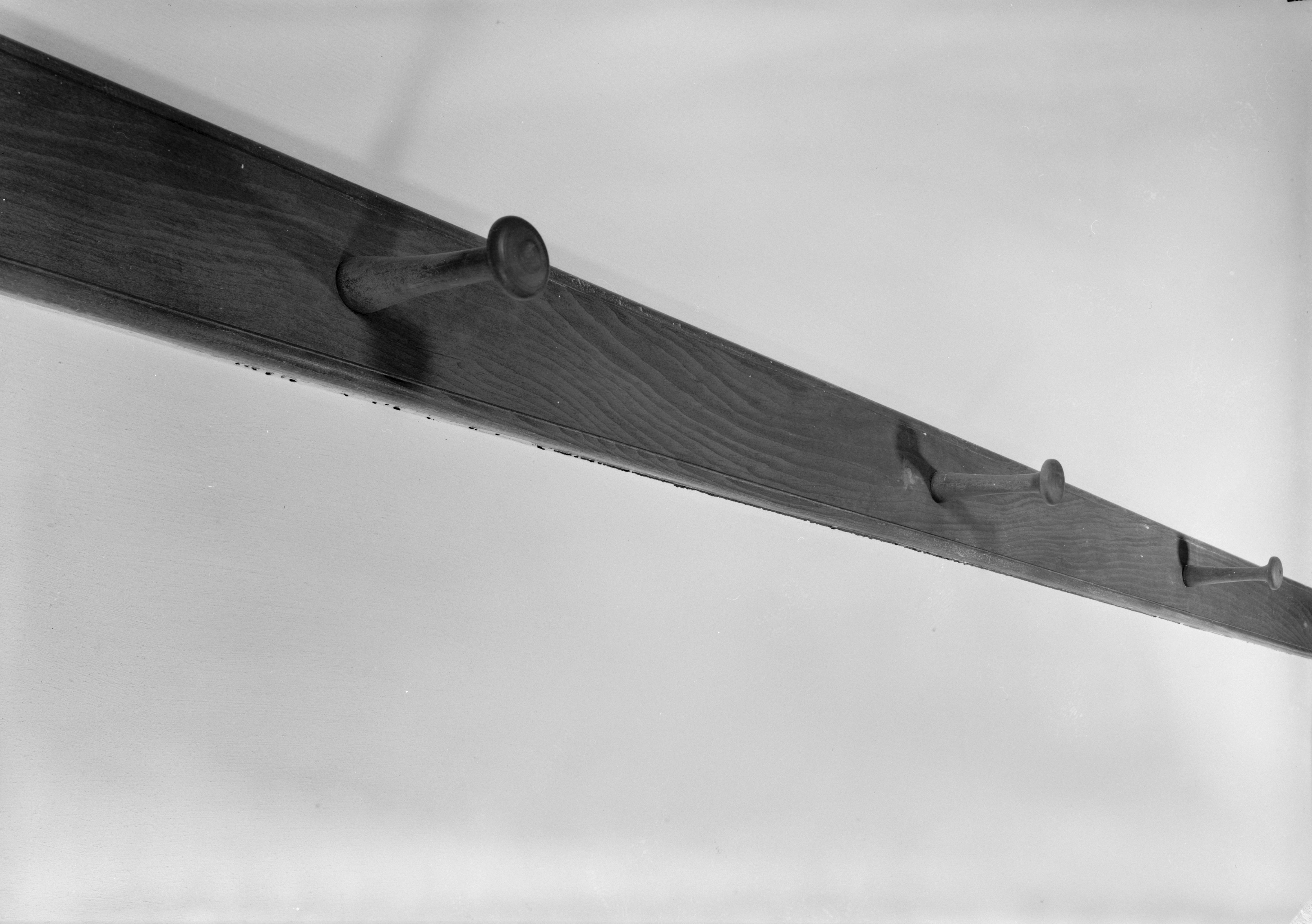 Clothes Peg Board in Shaker Church Family House, Hancock, Berkshire County, MA